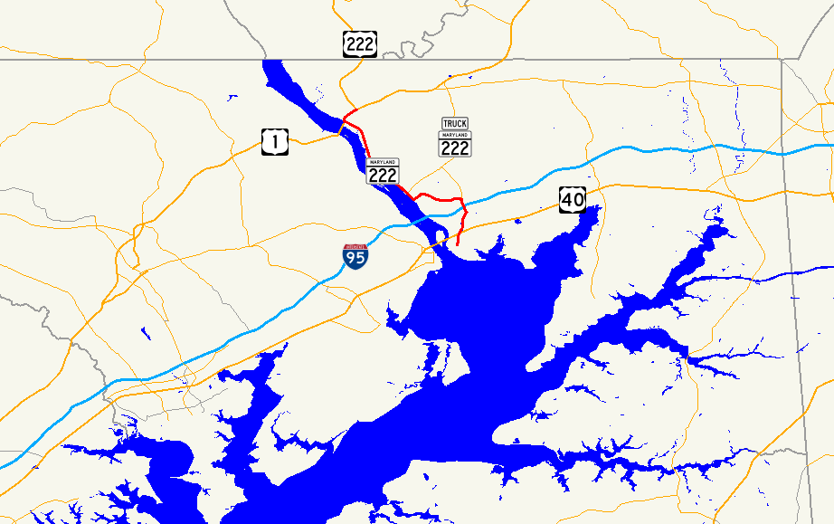 Map of Maryland Route 222